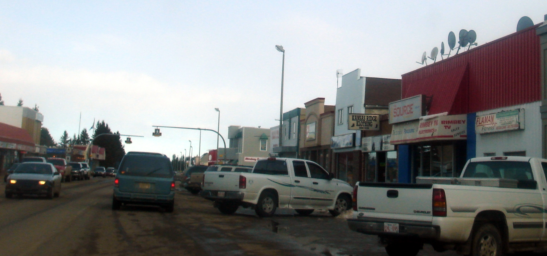 Storefronts in Rimbey, Alberta